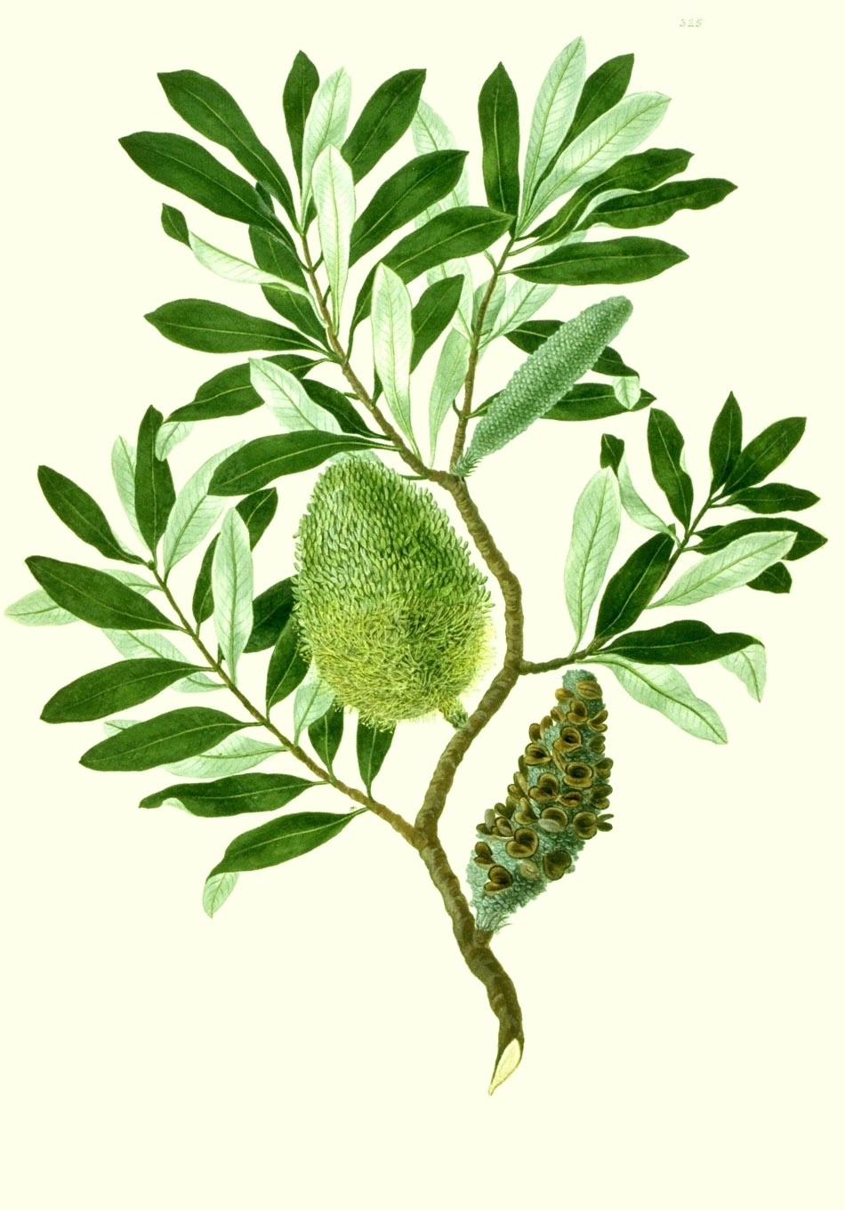 This is a watercolour-on-paper drawing of Banksia integrifolia. It was drawn and at least partly coloured by Sydney Parkinson, Sir Joseph Banks' botanical artist who was present when the species was first collected at Botany Bay, Australia. It is not known whether the drawing was completed by Parkinson, or whether it was delivered unfinished for completion by one of the London artist employed by Banks for that purpose.